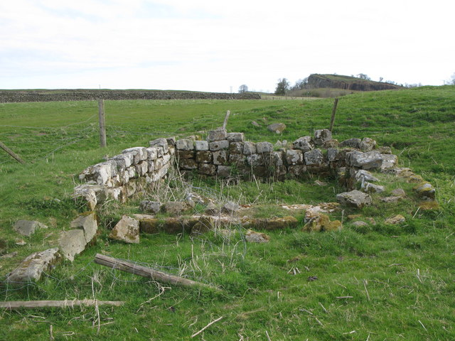 Carvoran (Magna) Roman Fort - tower at northwest corner (2). With 578245 in the distance.